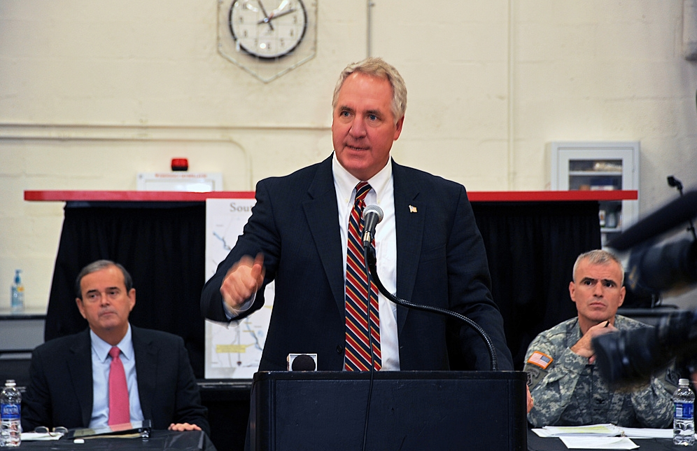 WOLF LAKE, Illinois